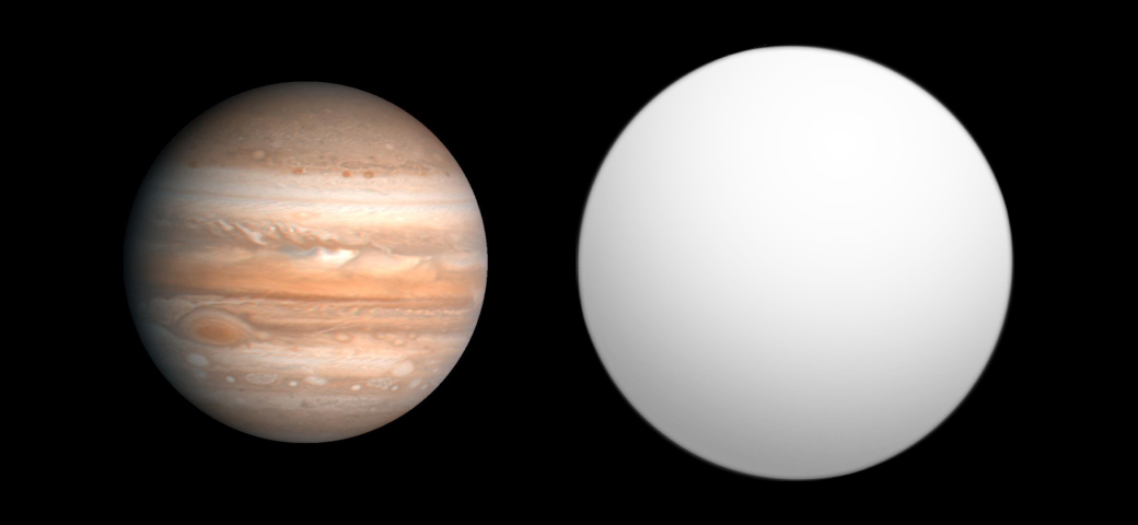 Comparison of best-fit size of the exoplanet HR 8799 d with the Solar System planet Jupiter, as reported in the Open Exoplanet Catalogue[1] as of 2015-11-14. ↑ Open Exoplanet Catalogue (2015-11-14). Retrieved on 2015-11-14.